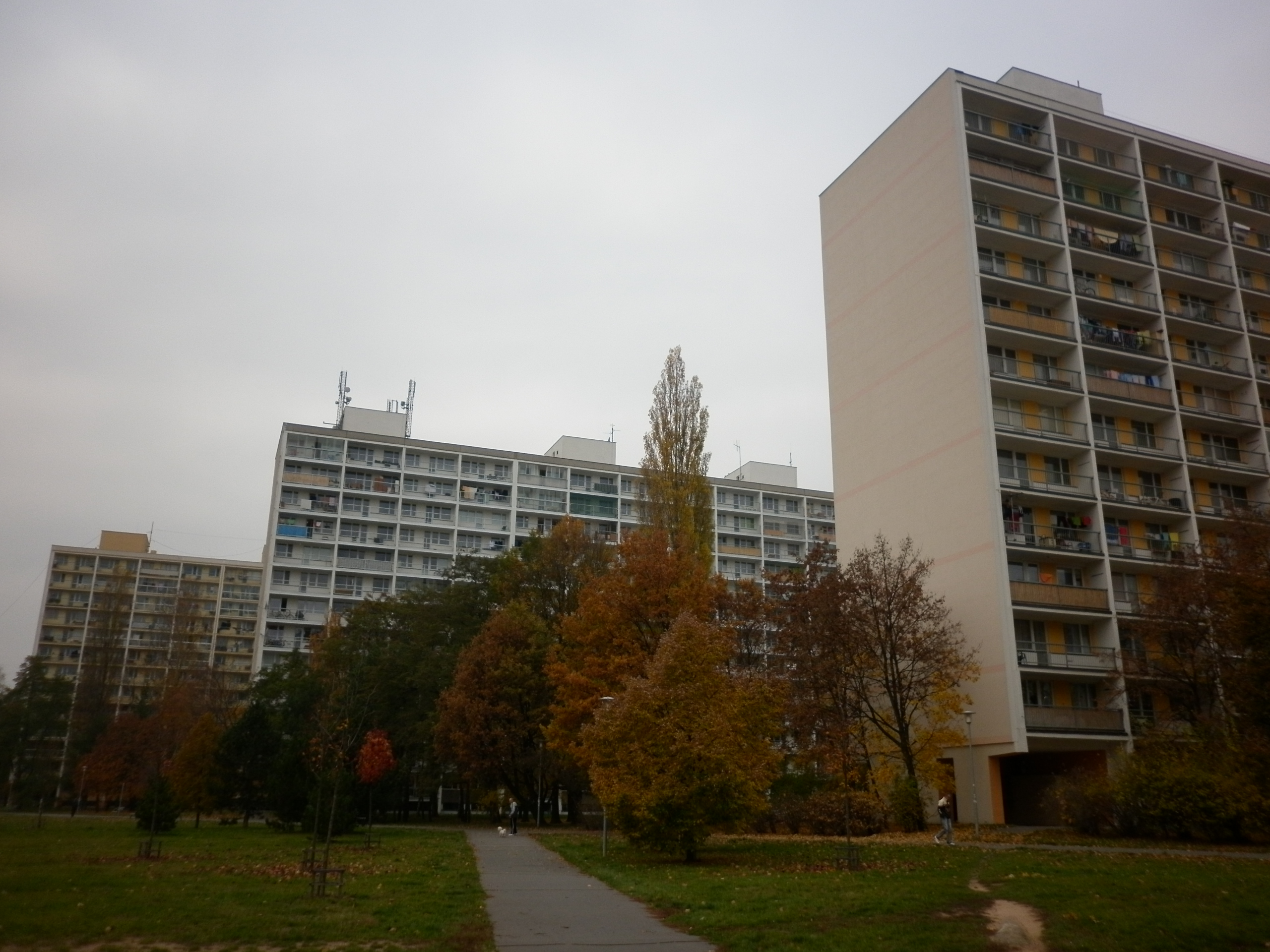 Polabiny, a city neighbourhood of Pardubice located on the right bank of Elbe river. Concrete buildings ("panelák") mainly from the communist era. "Polabiny III".